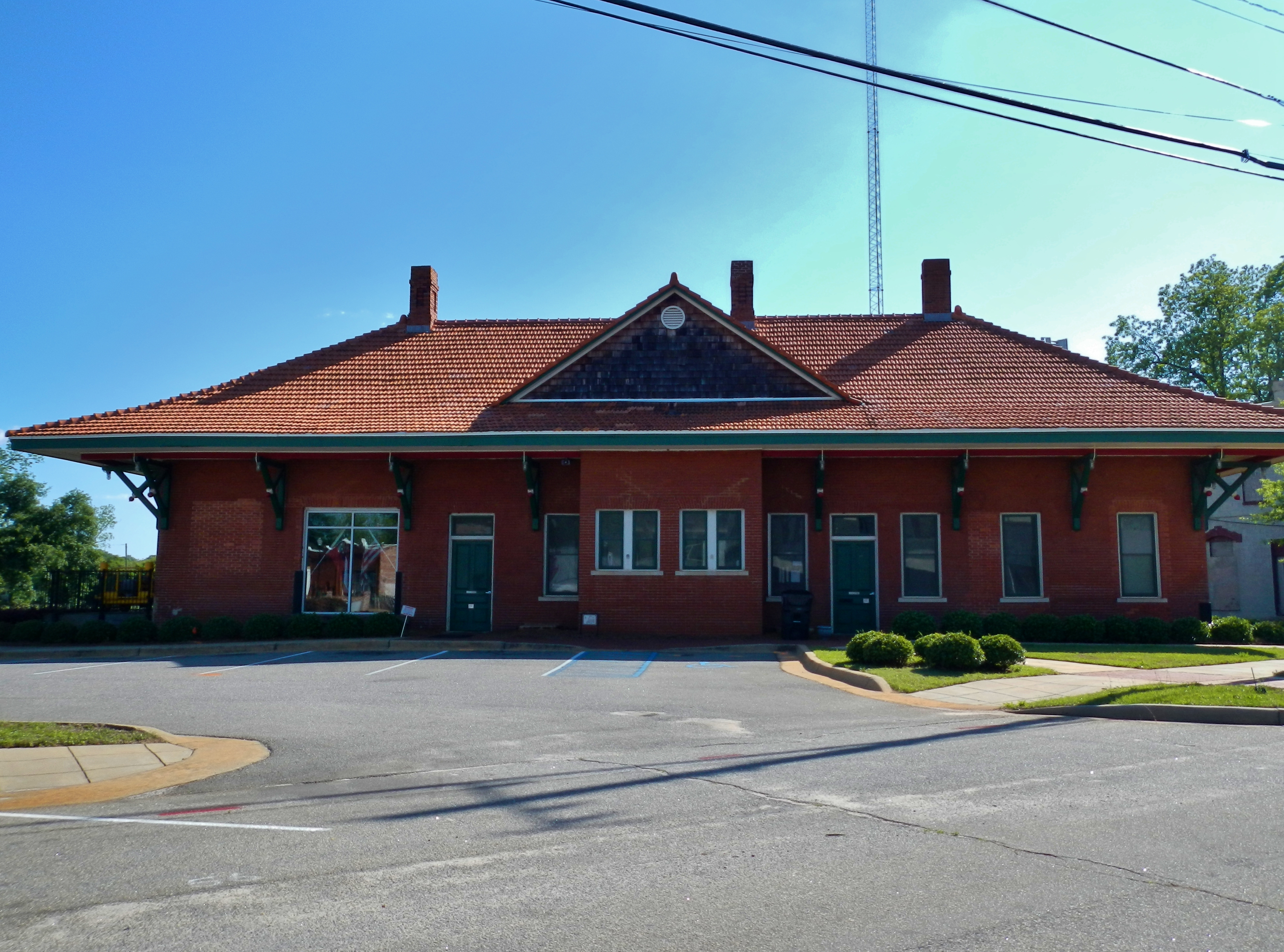 This is a photo of the Richland Depot (c. 1890) in Richland, GA. It's a contributing property to the Richland Historic District. The building currently serves as Richland City Hall.